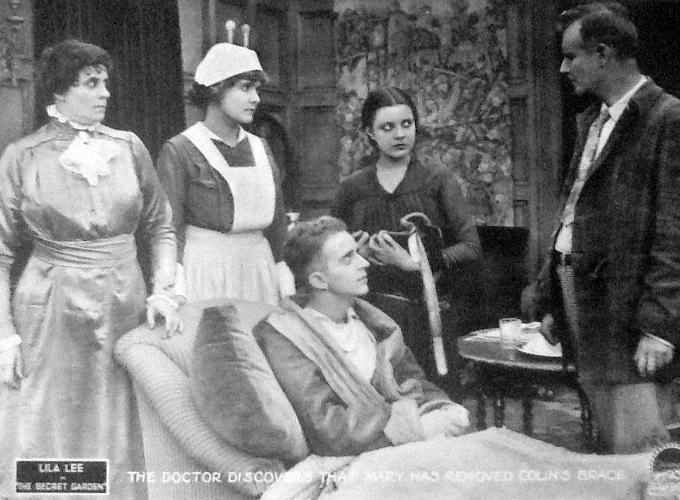 Lobby card for the 1920 film The Secret Garden.